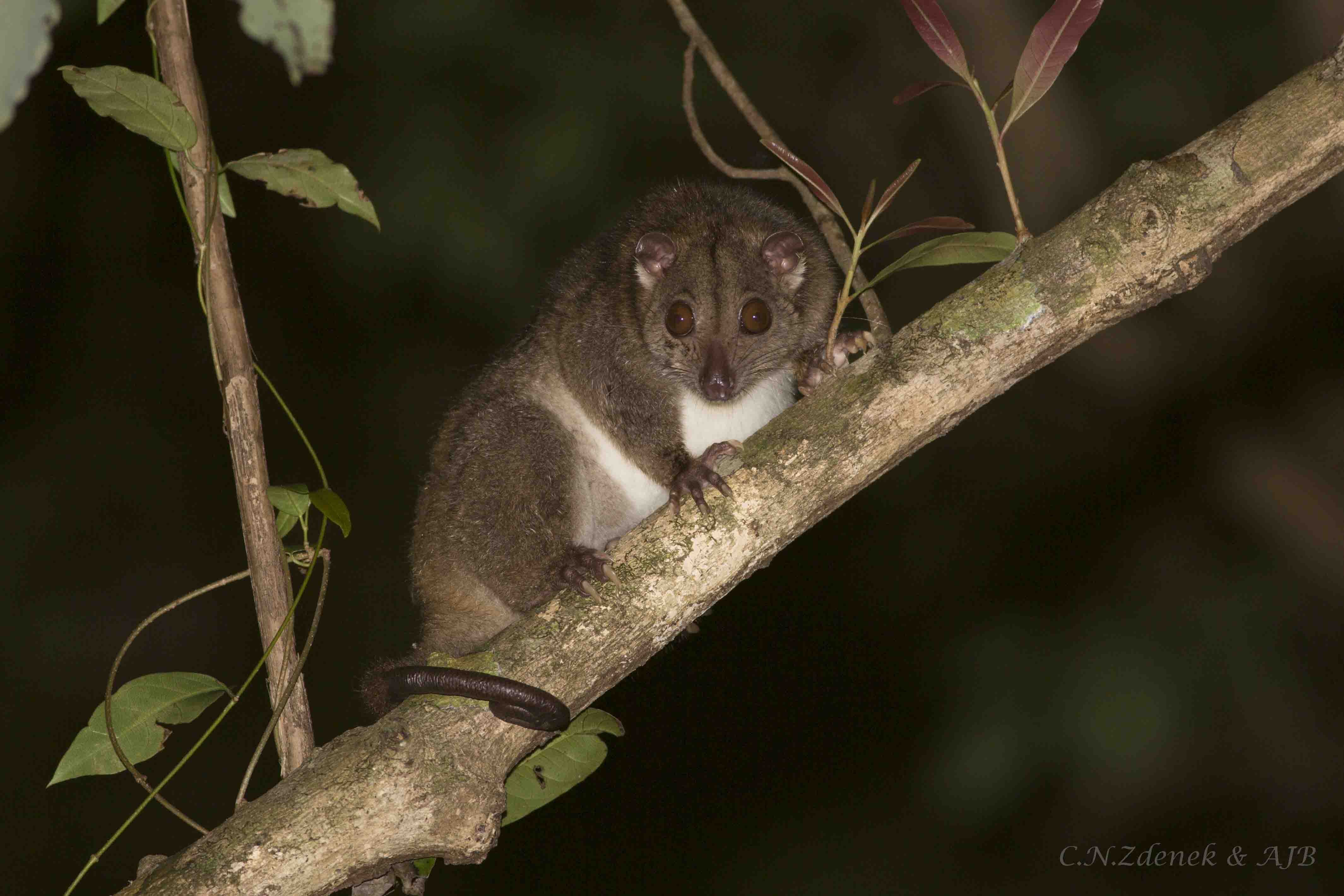 A juvenile Southern Brown Cuscus in the rainforest of Lockhart River, Cape York Peninsula. © CNZdenek & AJBurnett